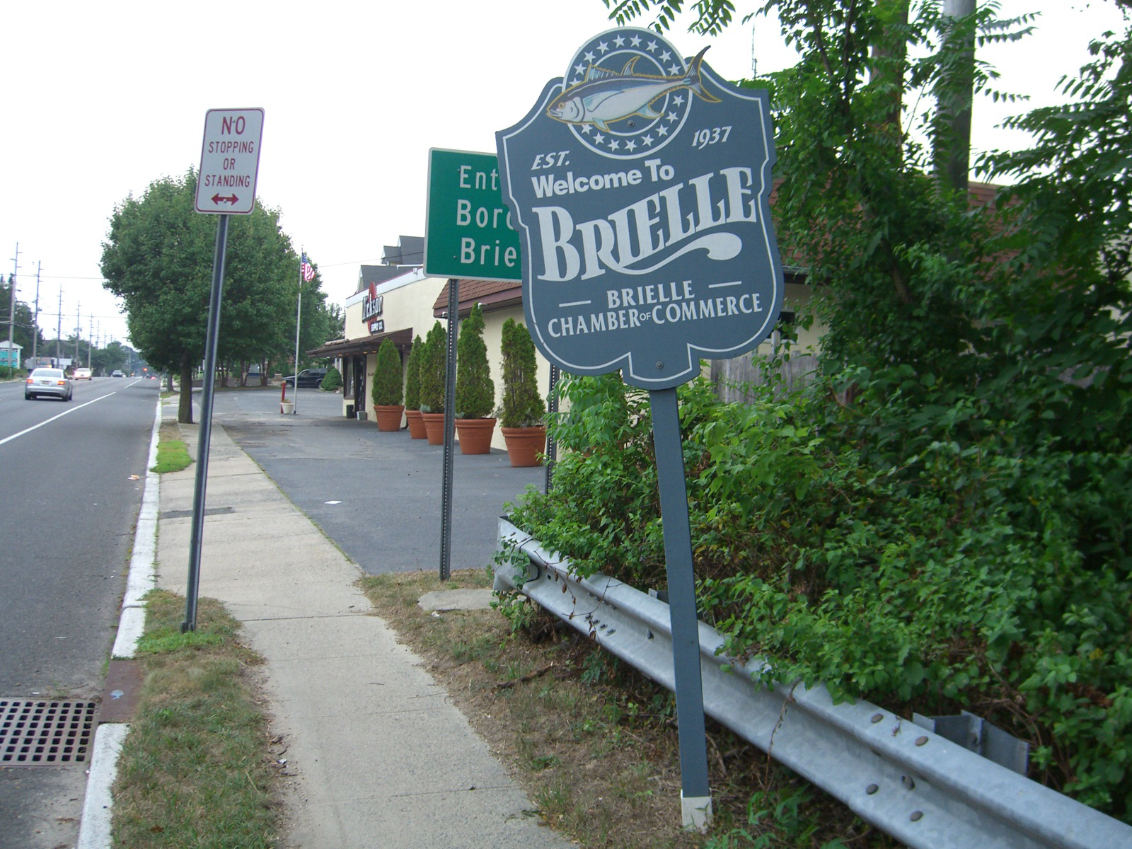 Welcome sign on Union Avenue in Brielle, New Jersey. City limit sign can be seen behind the welcome sign.